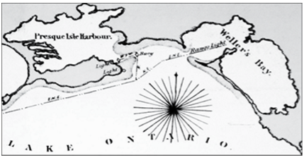 Proposed harbour of refuge, Weller's Bay, 1861